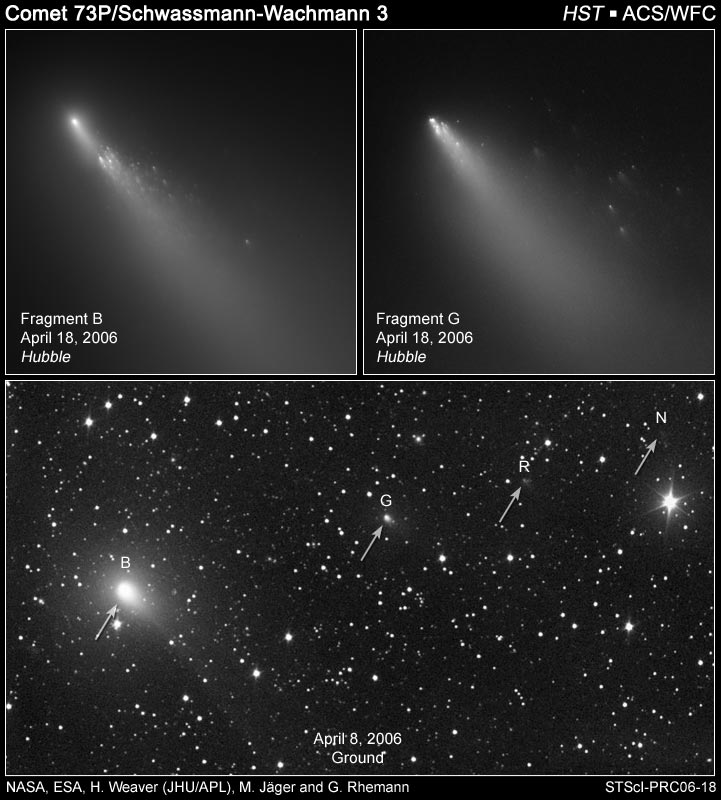 Hubble Space Telescope is providing astronomers with extraordinary views of Comet 73P/Schwassmann-Wachmann 3.